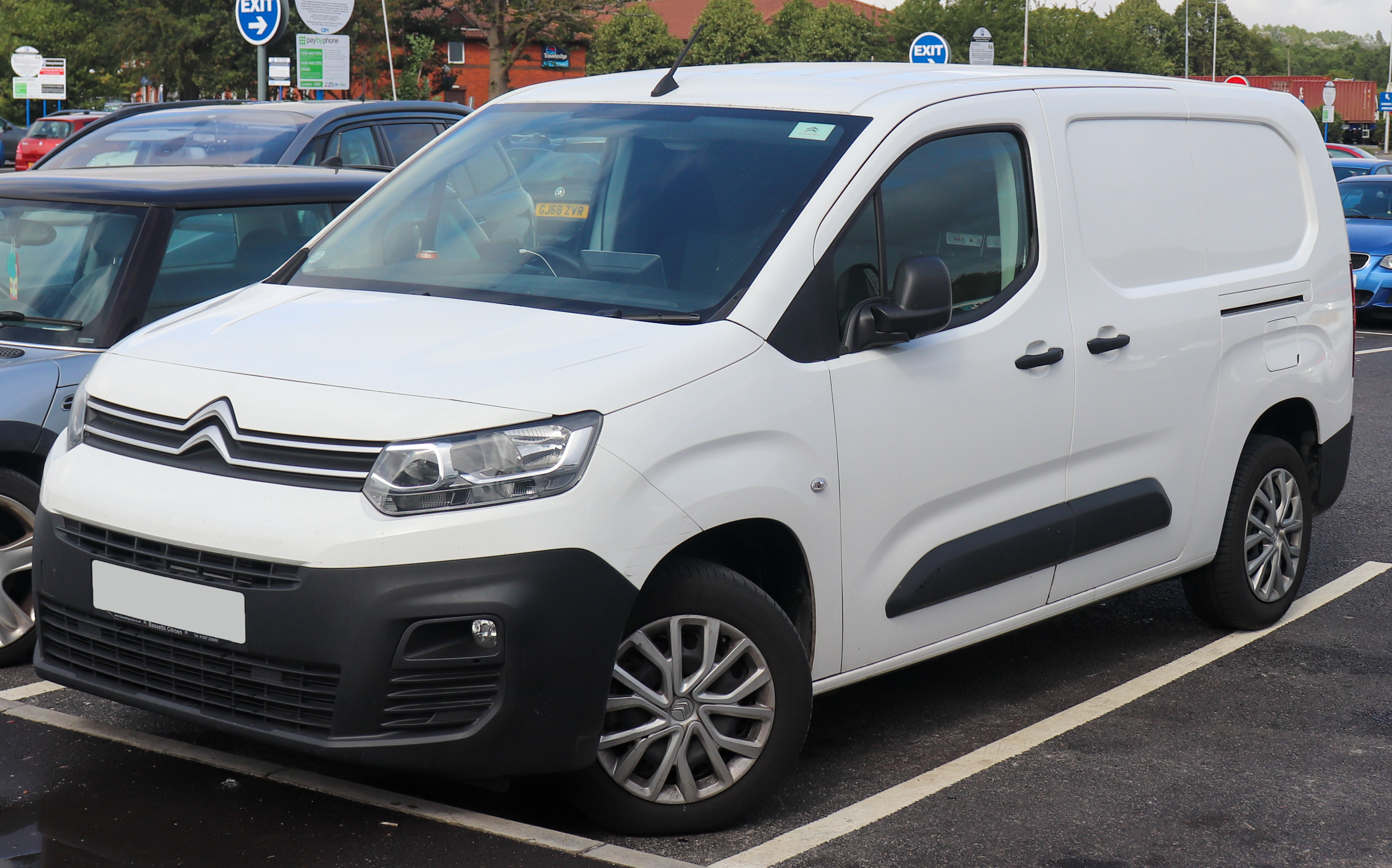 2019 Citroen Berlingo 950 Enterprise BlueHDi 1.5